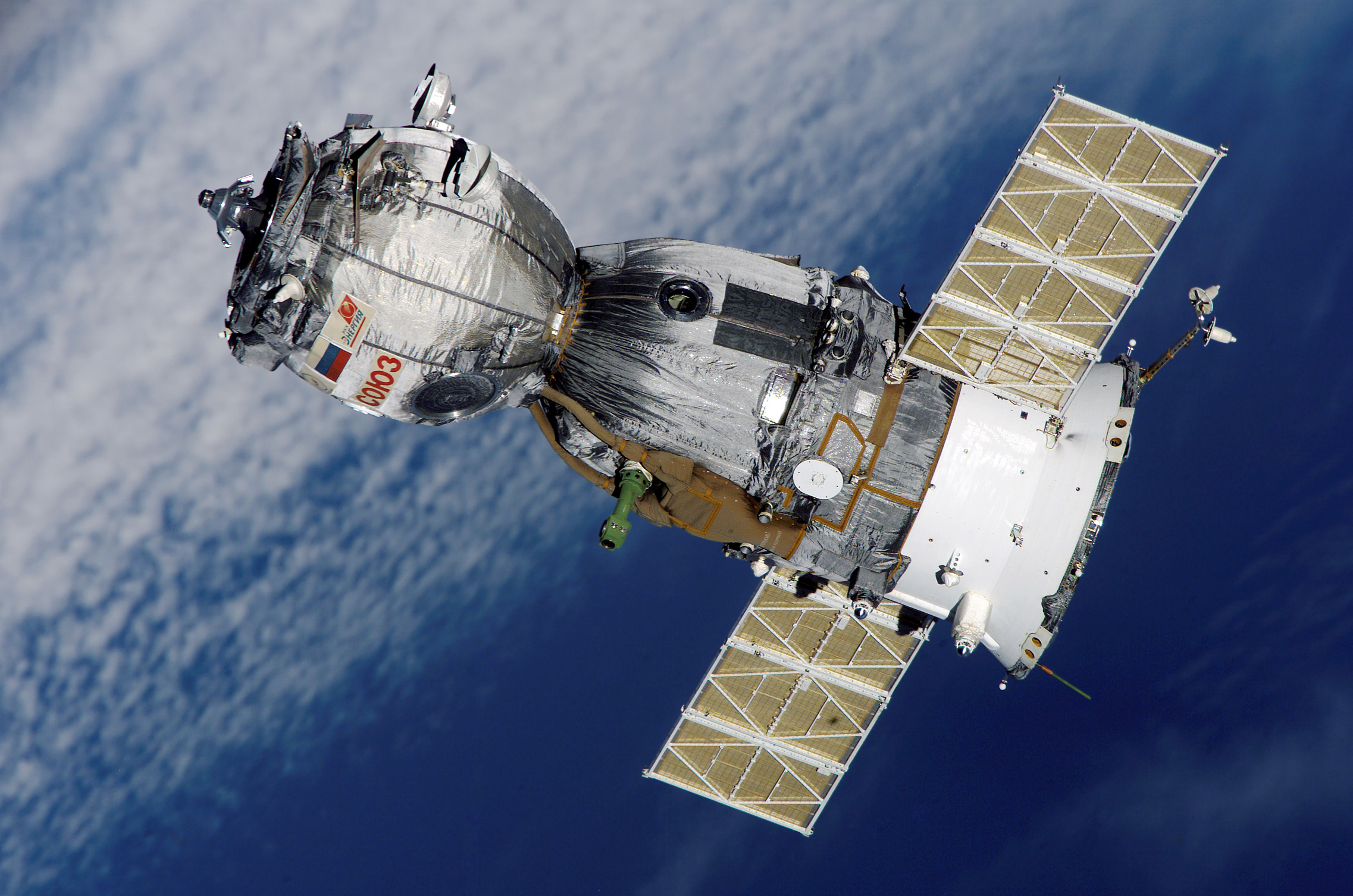 Edit 1 of en::Image:Soyuz_TMA-7_spacecraft2.jpg by thegreenj